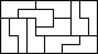 The hexomino with odd-order 11 found by Klarner.